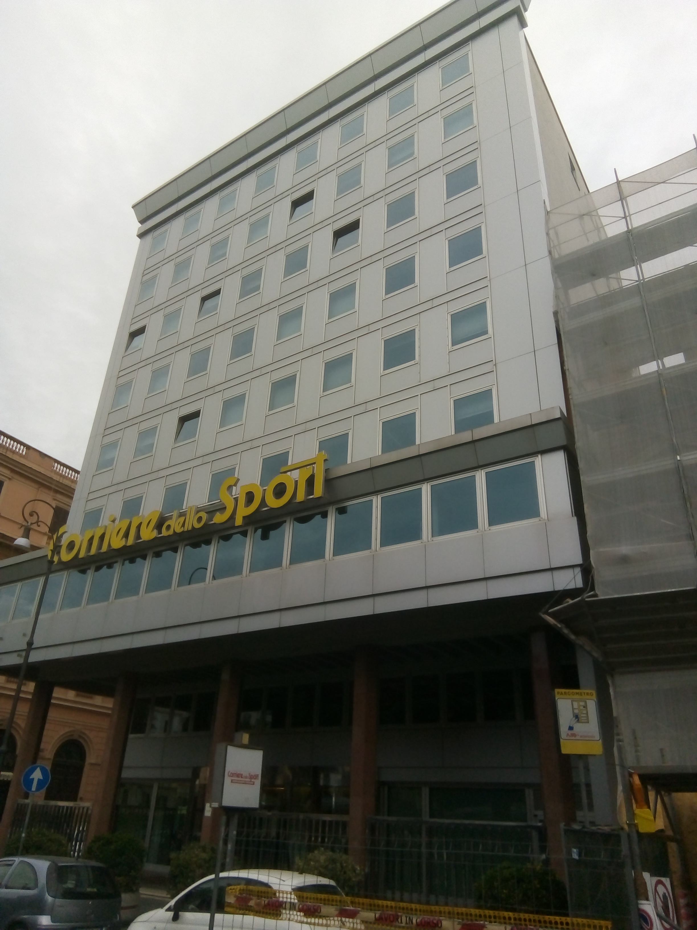 Corriere della Sport building